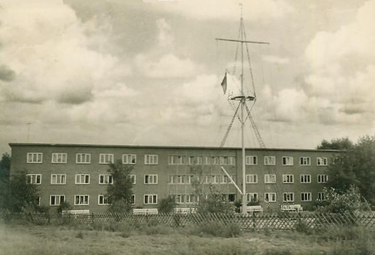 Former sailor school Finkenwerder from 1957 to 1973-74 - 1962